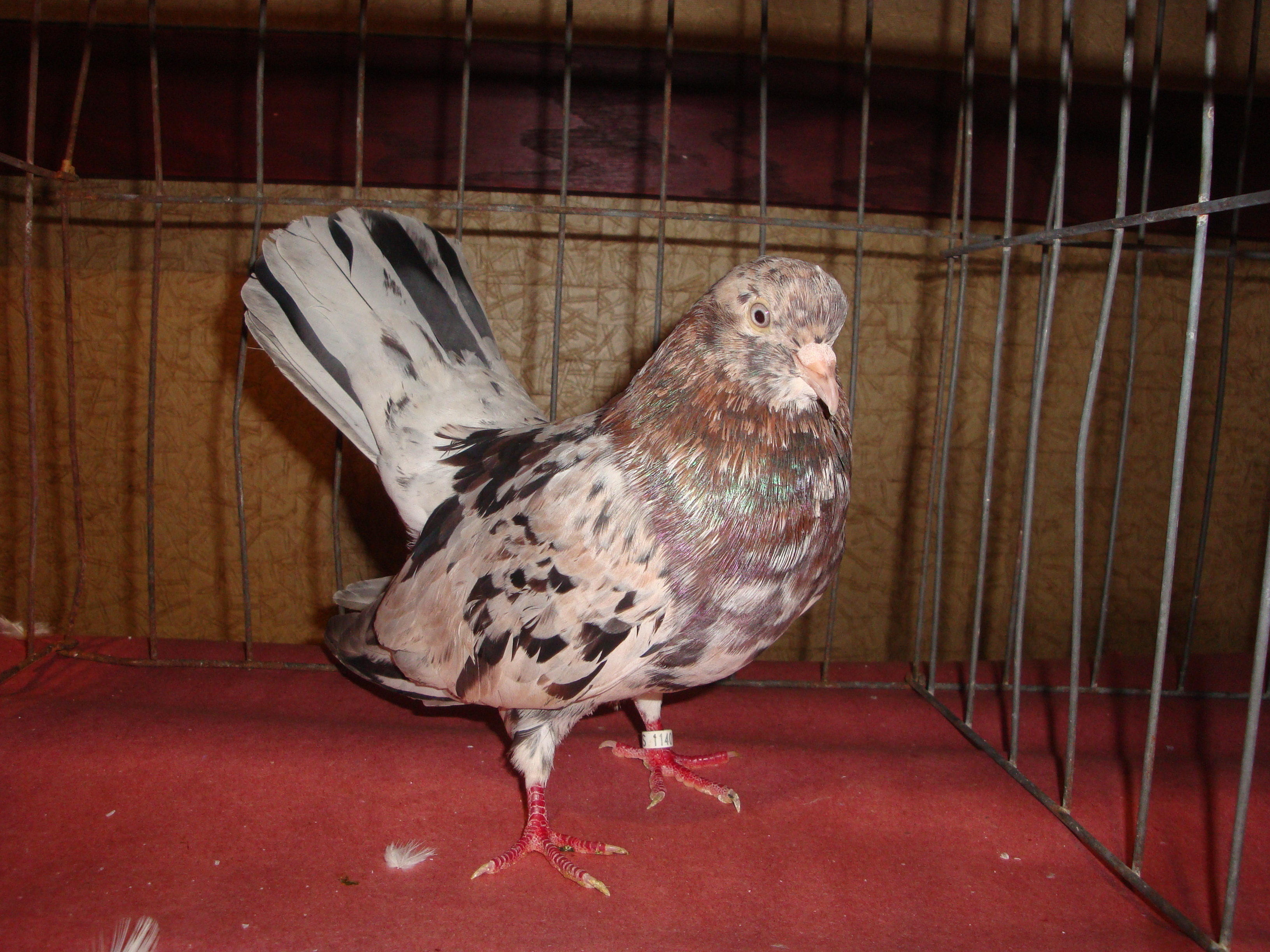 Classic Almond Oriental Roller bred by Zeljko Talanga